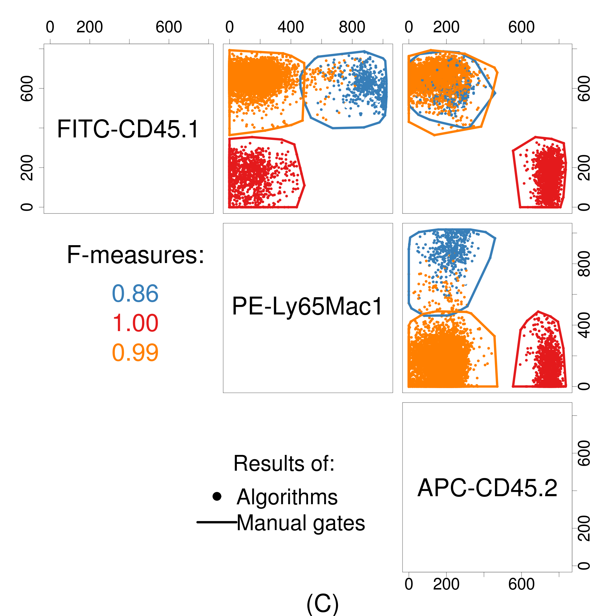 Results of the FlowCAP - Flow Cytometry: Critical Assessment of Population Identification Methods competition, comparing the performance of flow cytometry clustering algorithms.